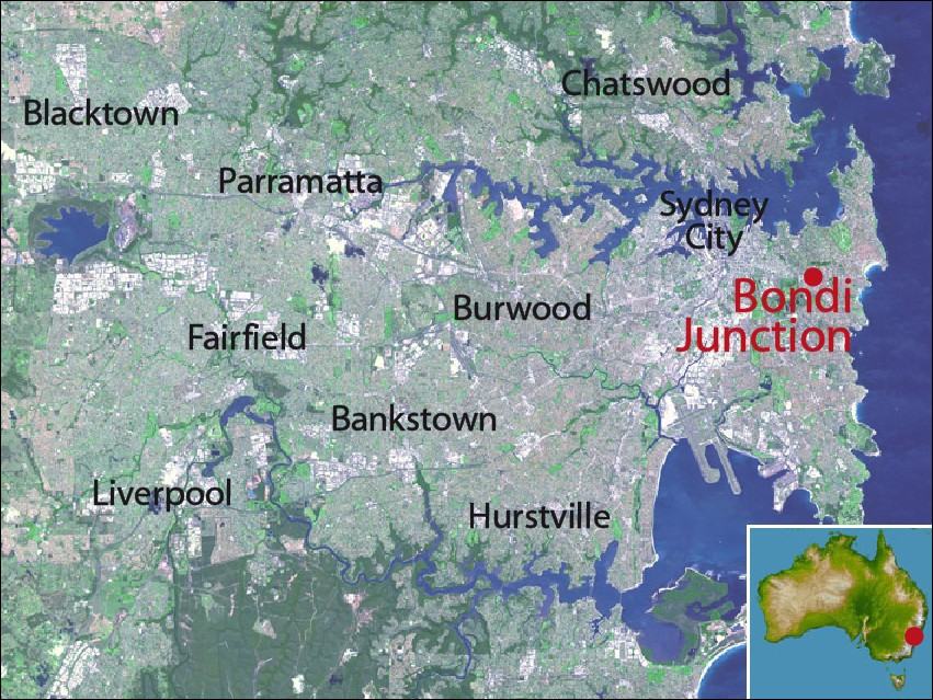 Map of Sydney, highlighting location of Bondi Junction, New South Wales